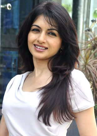 Bhagyashree at Neeta Lulla's birthday brunch